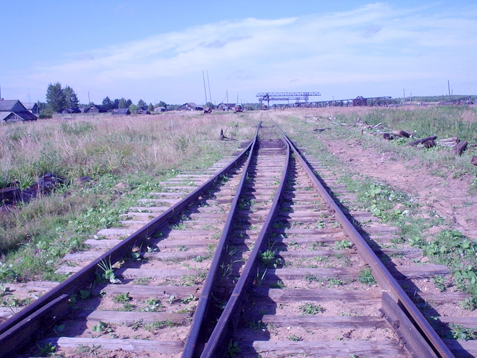 Kamenka, Gryazovetsky District, Vologda Oblast